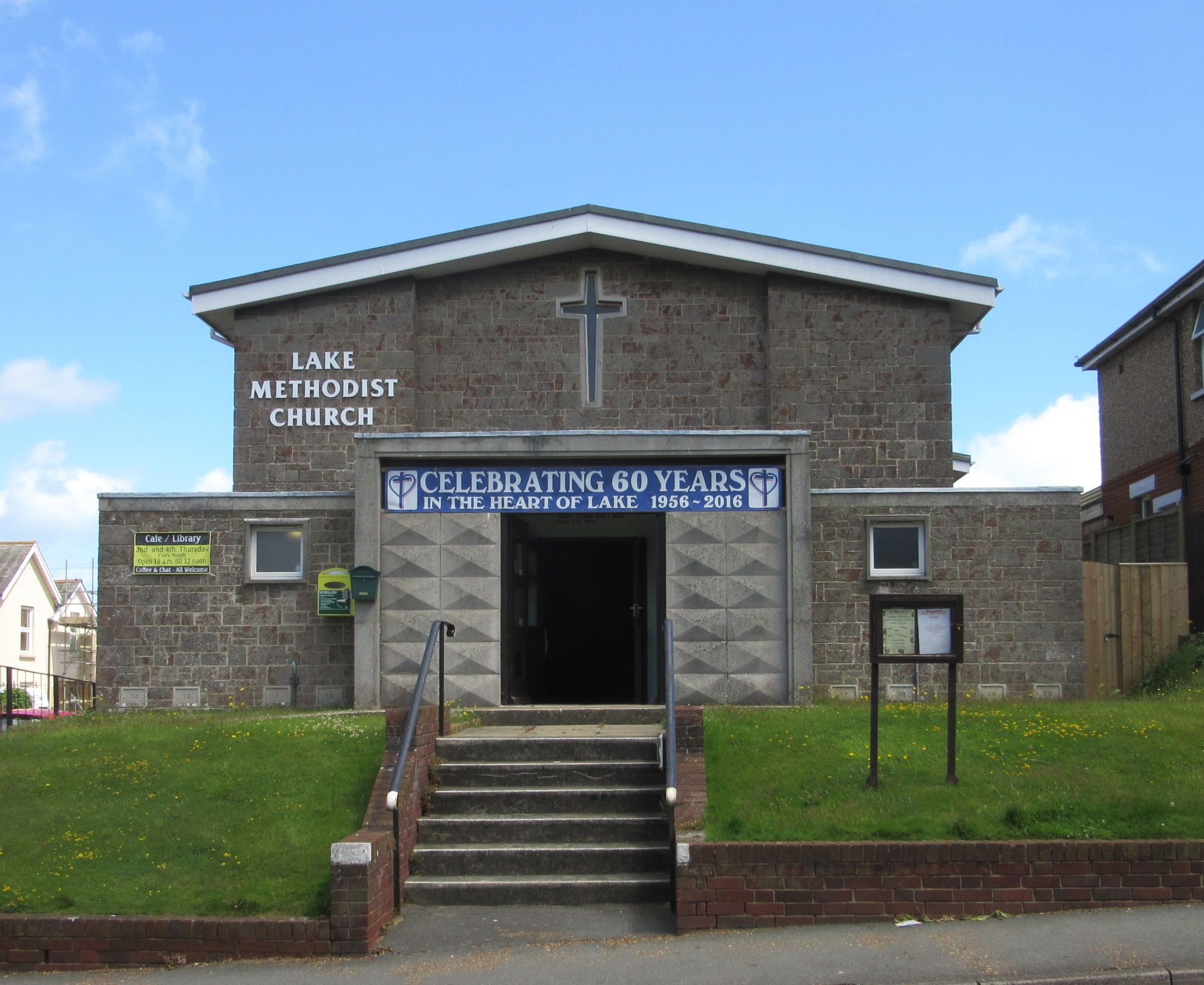 Lake Methodist Church, Sandown Road, Lake, Isle of Wight, England. It dates from 1955, but its predecessor (built circa 2016 1877 for Bible Christians) stands behind it.